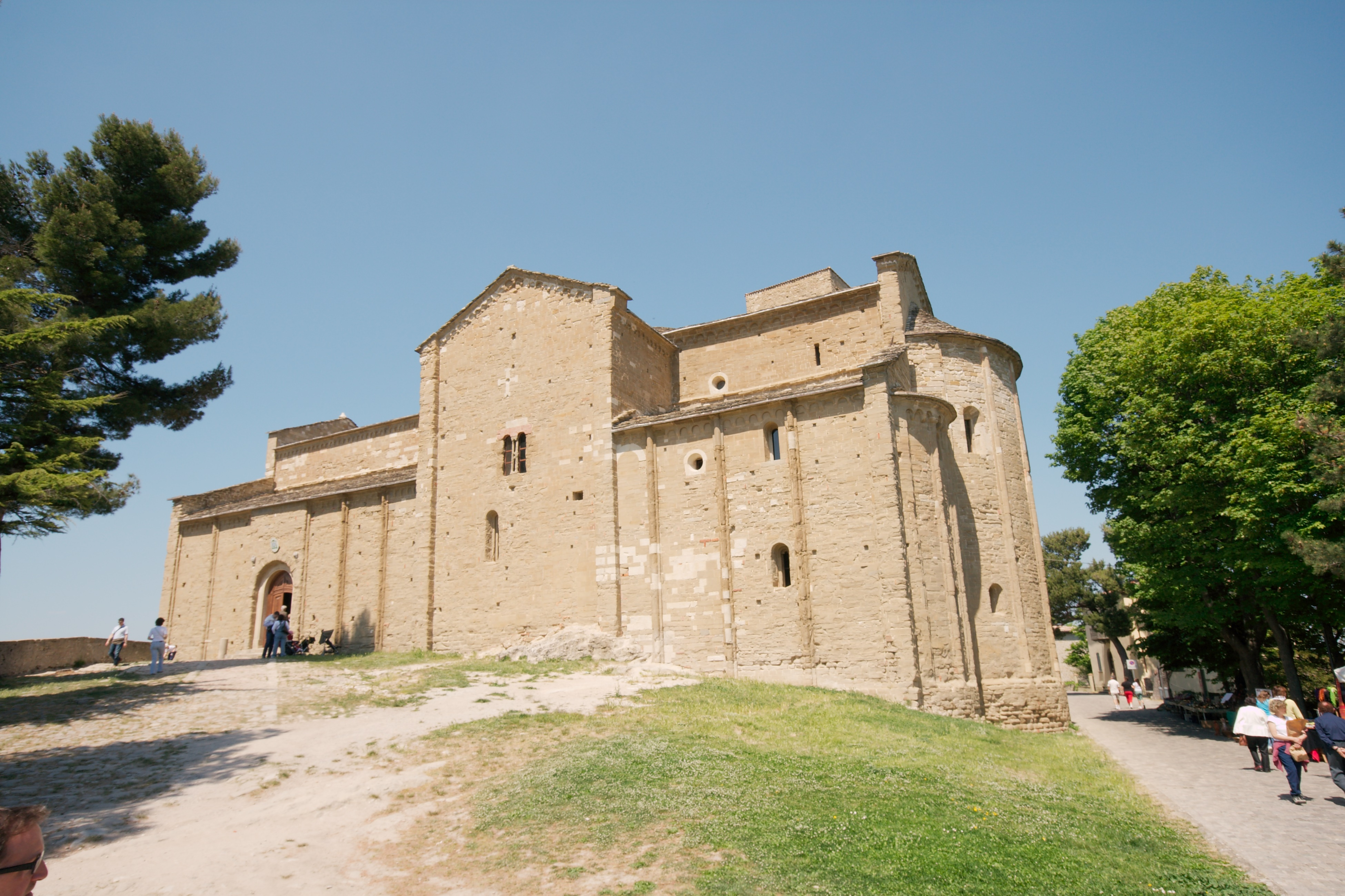 This is the main church of San Leo.